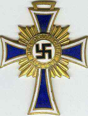 Cross of Honor of the German Mother